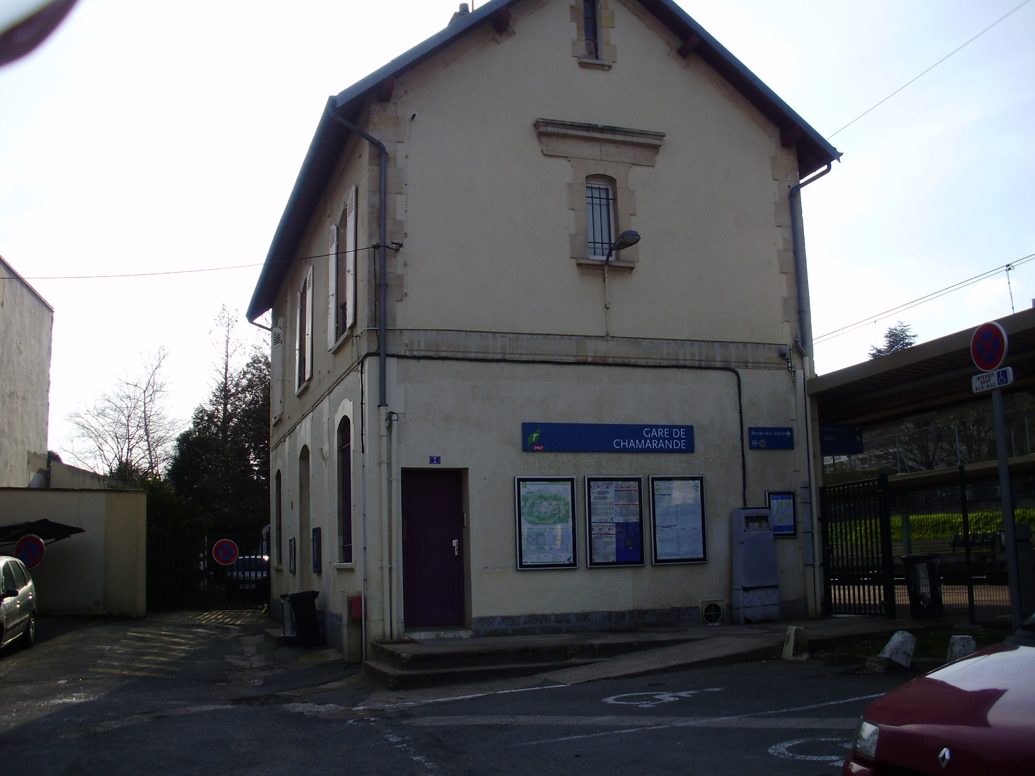 Chamarande station, Essonne, France